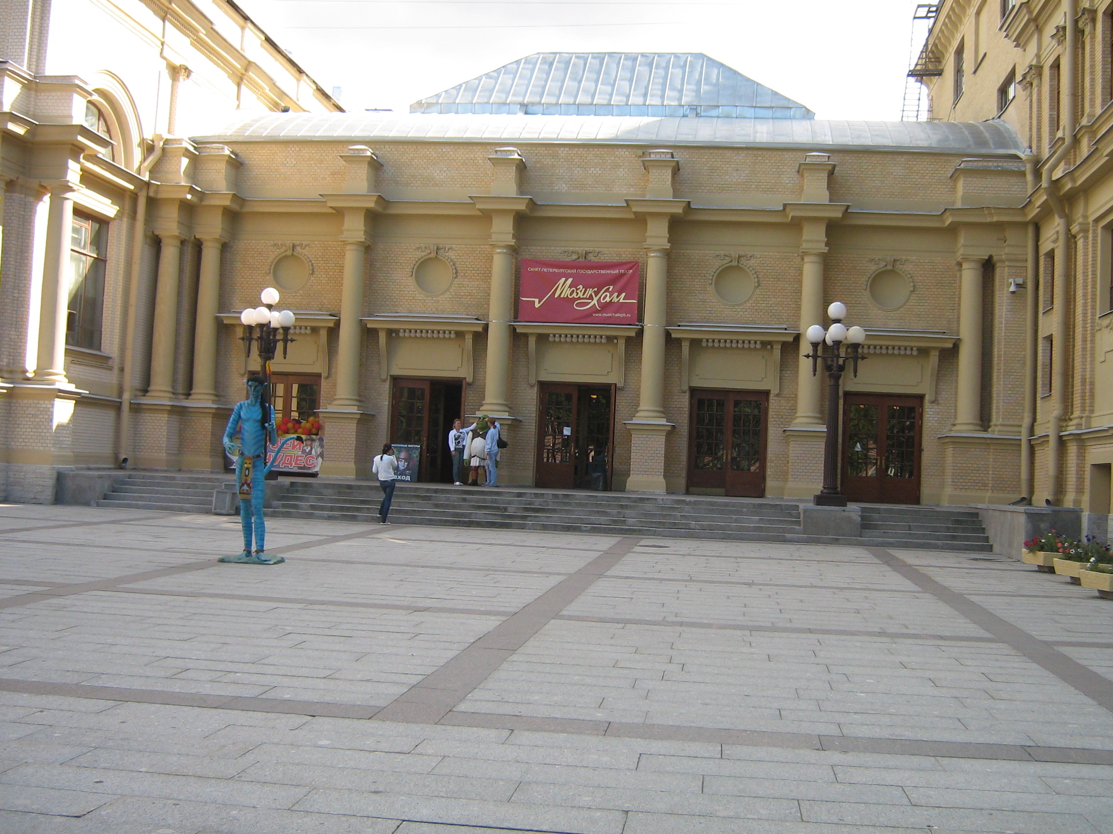 Saint Petersburg (Russia), Alexander Park.